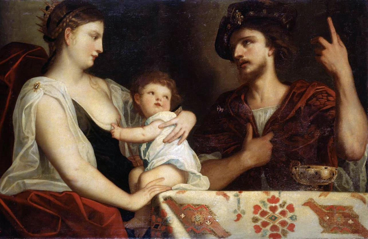 Roxana with Alexander IV Aegus the son of Alexander the Great